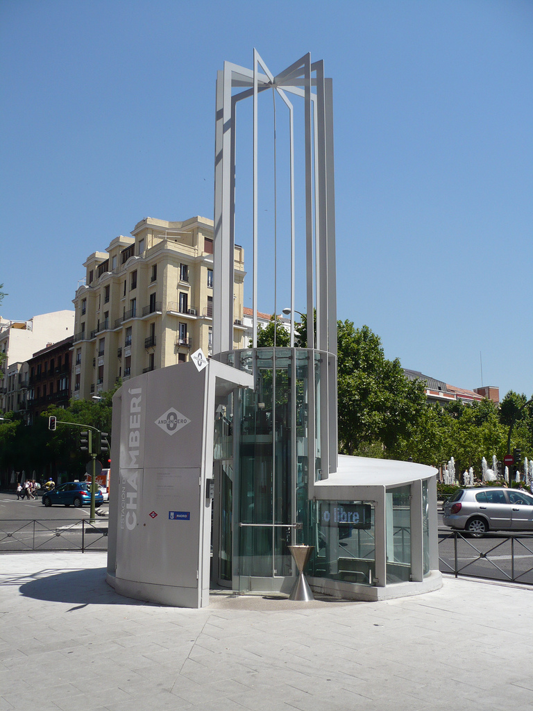 Entrance elevator of Chamberí underground station in Madrid (Spain).